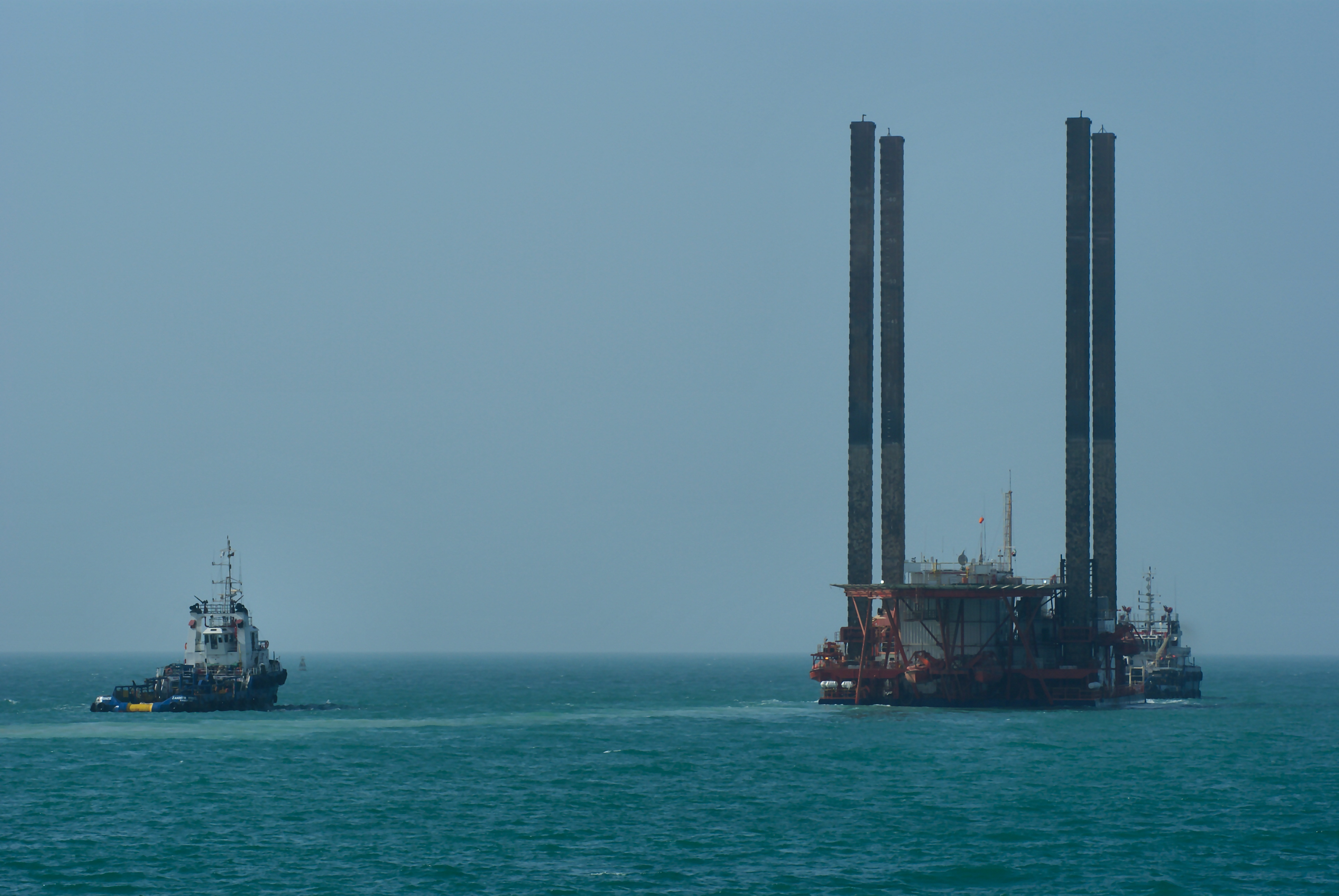 Tug boat with an oil rig off the coast of Abu Dhabi.